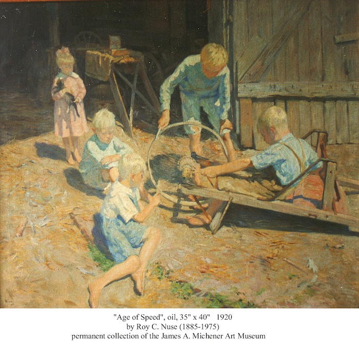 "Age of Speed," oil, 35" x 40", depicting three children and two nephews of the artist.